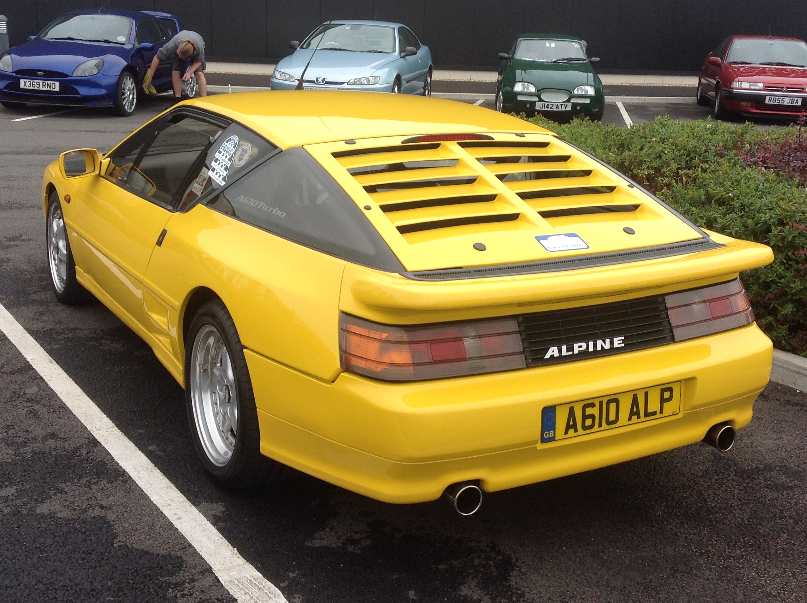 Rare Breeds, Haynes Motor Museum, Sparkford, Somerset